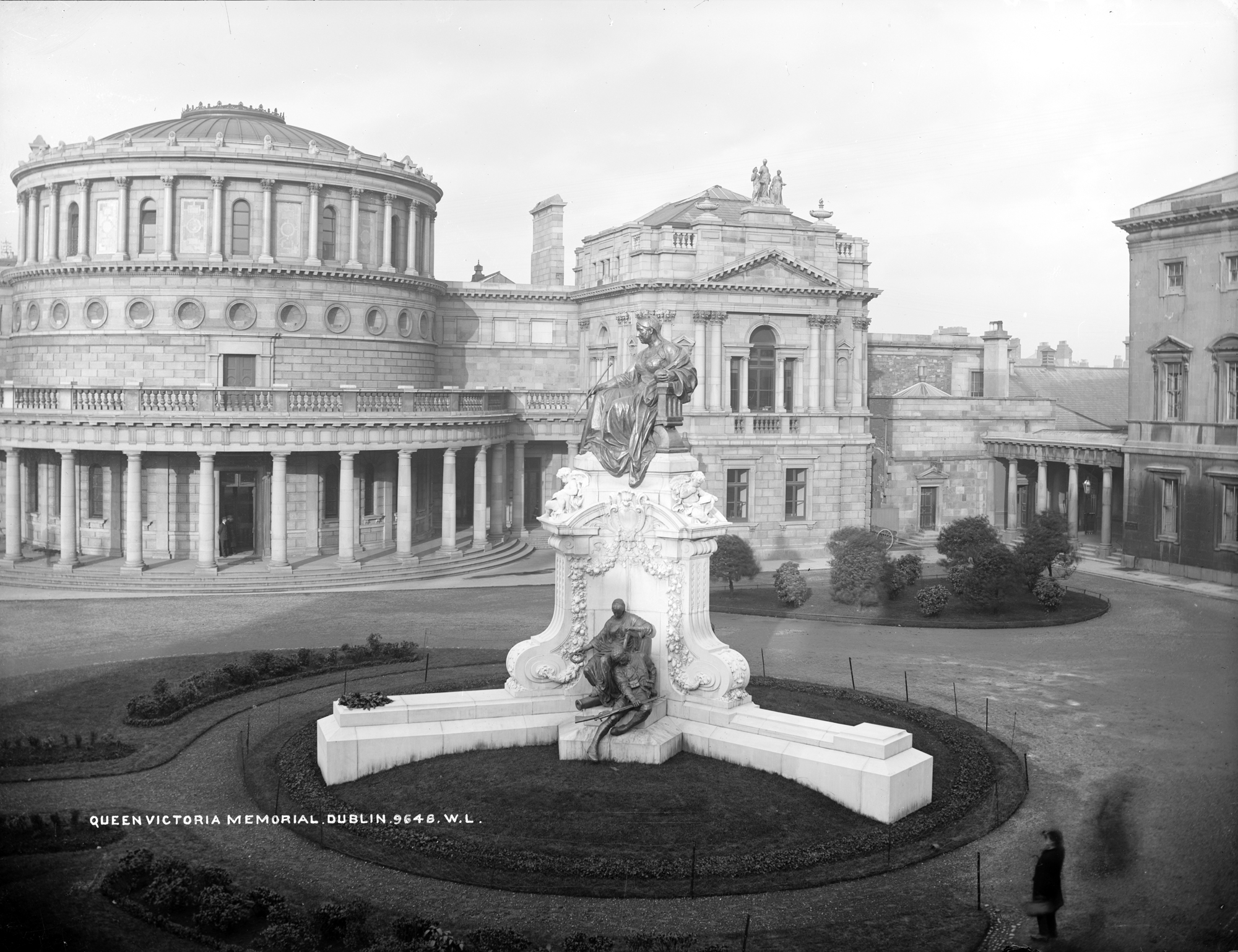 It's a while since we saw a photo featuring our lovely building here in Dublin, even though we're just playing a supporting role to the star of this one - a statue of Queen Victoria. Uploading this because gerry.heaney has some queries about the statue... Date: After 15 February 1908 (when statue was unveiled) NLI Ref.: L_ROY_09648